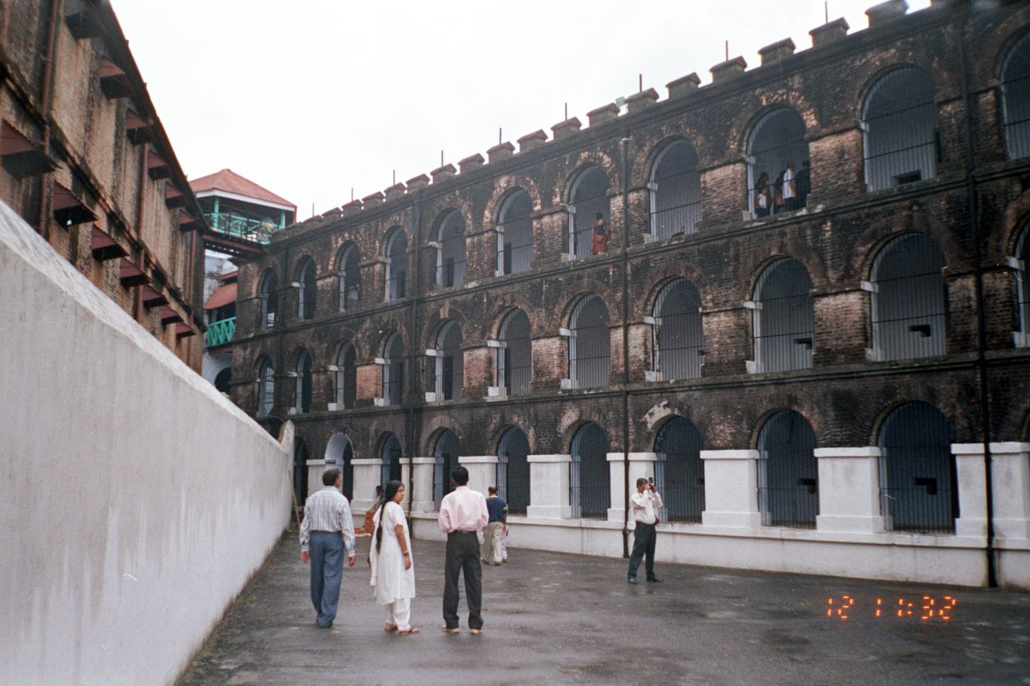 Cellular Jail in Andaman & Nicobar Islands